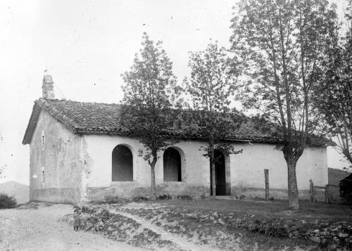 Hermitage of Our Lady of Lierni, in the village of Mutiloa (Gipuzkoa)